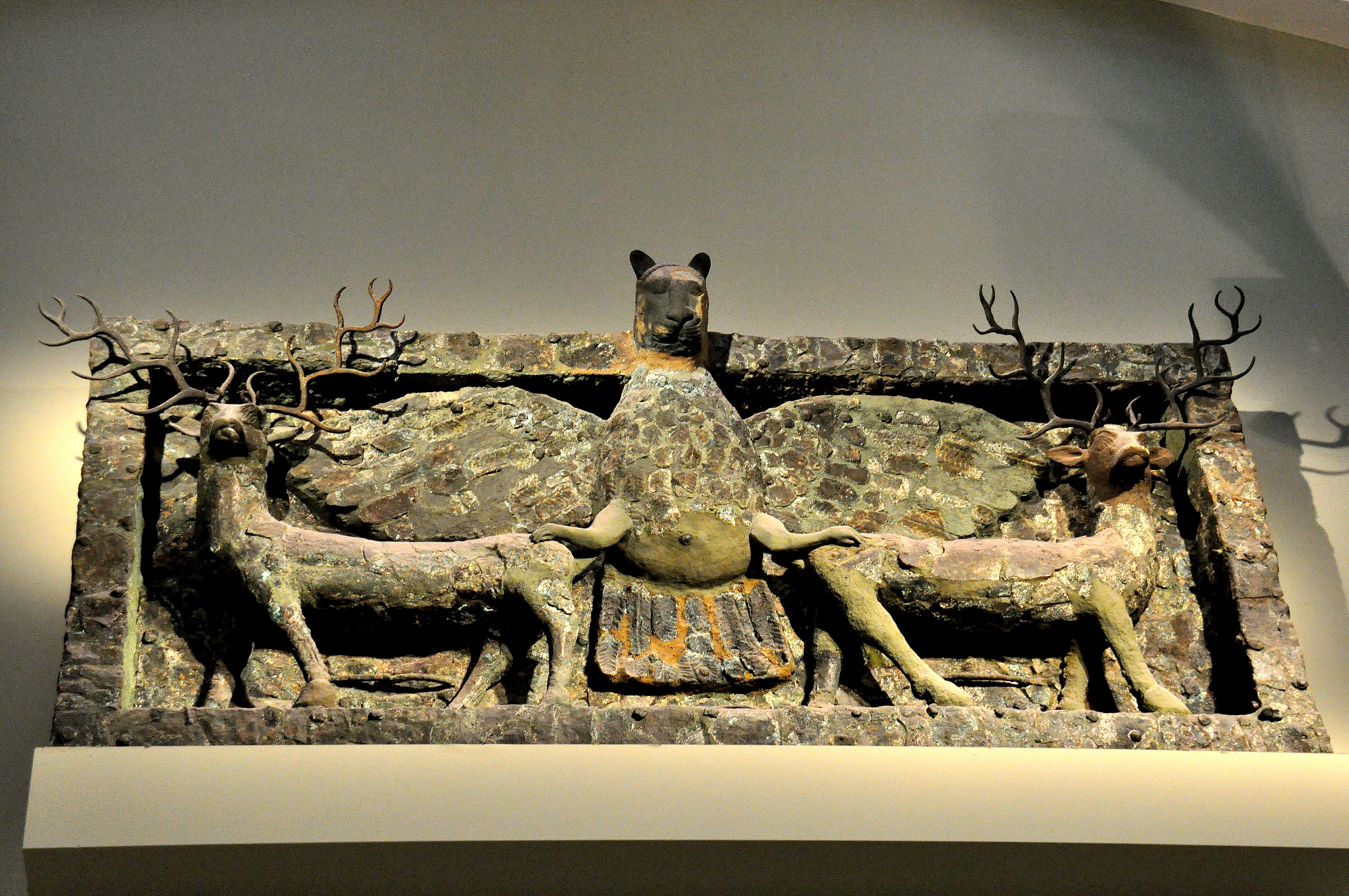 This lion-headed eagle (Imdugud or Anzu) is the Sumerian symbol of the God Ningirsu. In this panel, Anzu appears to grasp two deers, simultaneously. The panel was found at the base of the temple of Goddess Ninhursag at Tell- Al-Ubaid. From southern Mesopotamia (Iraq), early dynastic period, circa 2500 BCE. The British Museum, London.